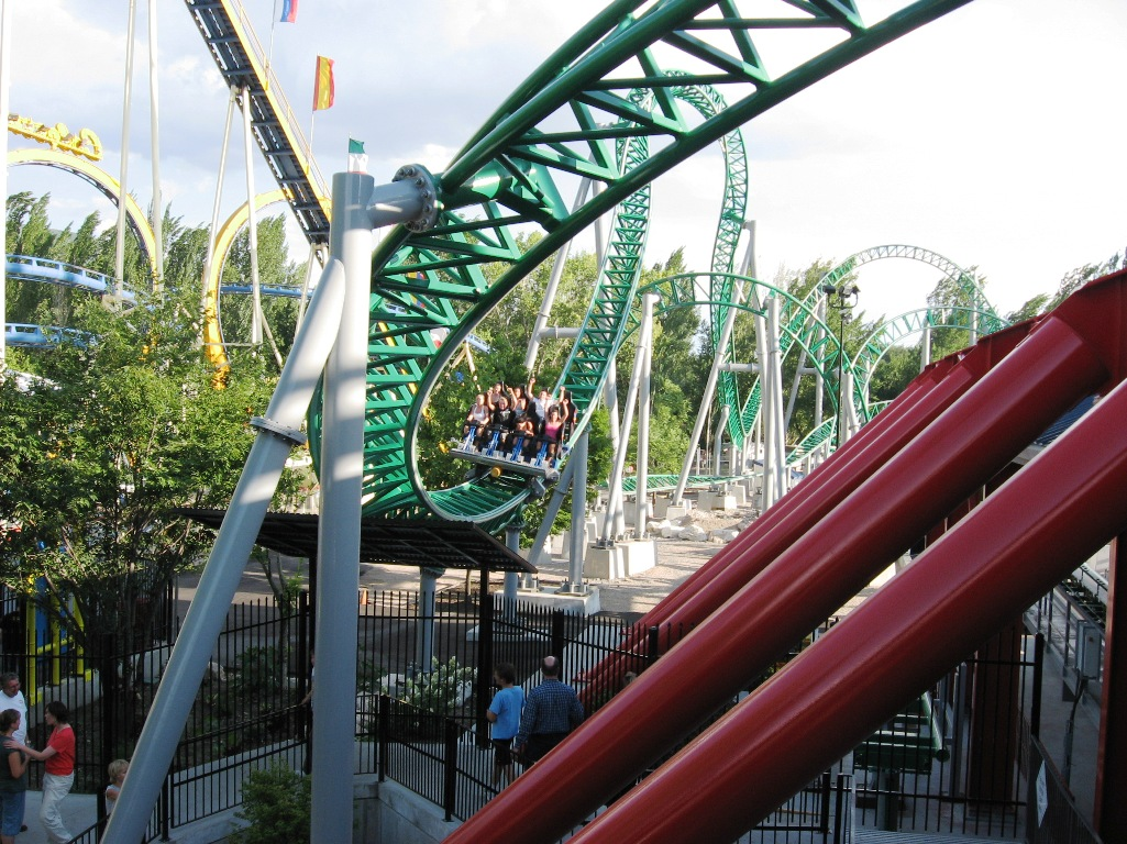 Coming out of the inversion